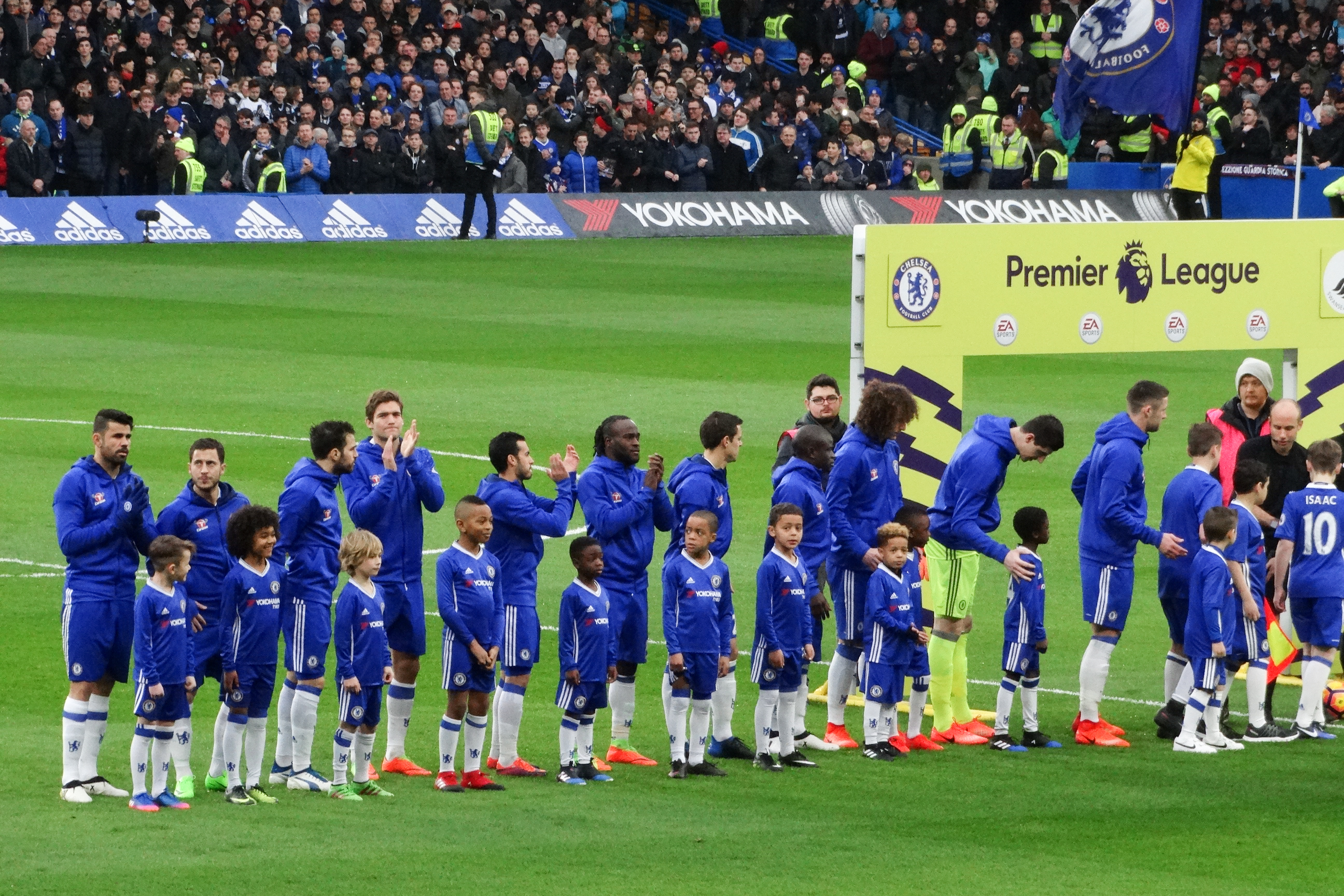 London, Stamford Bridge, February 25, 2017. Chelsea FC v Swansea City AFC (3-1), 2016–17 Premier League.